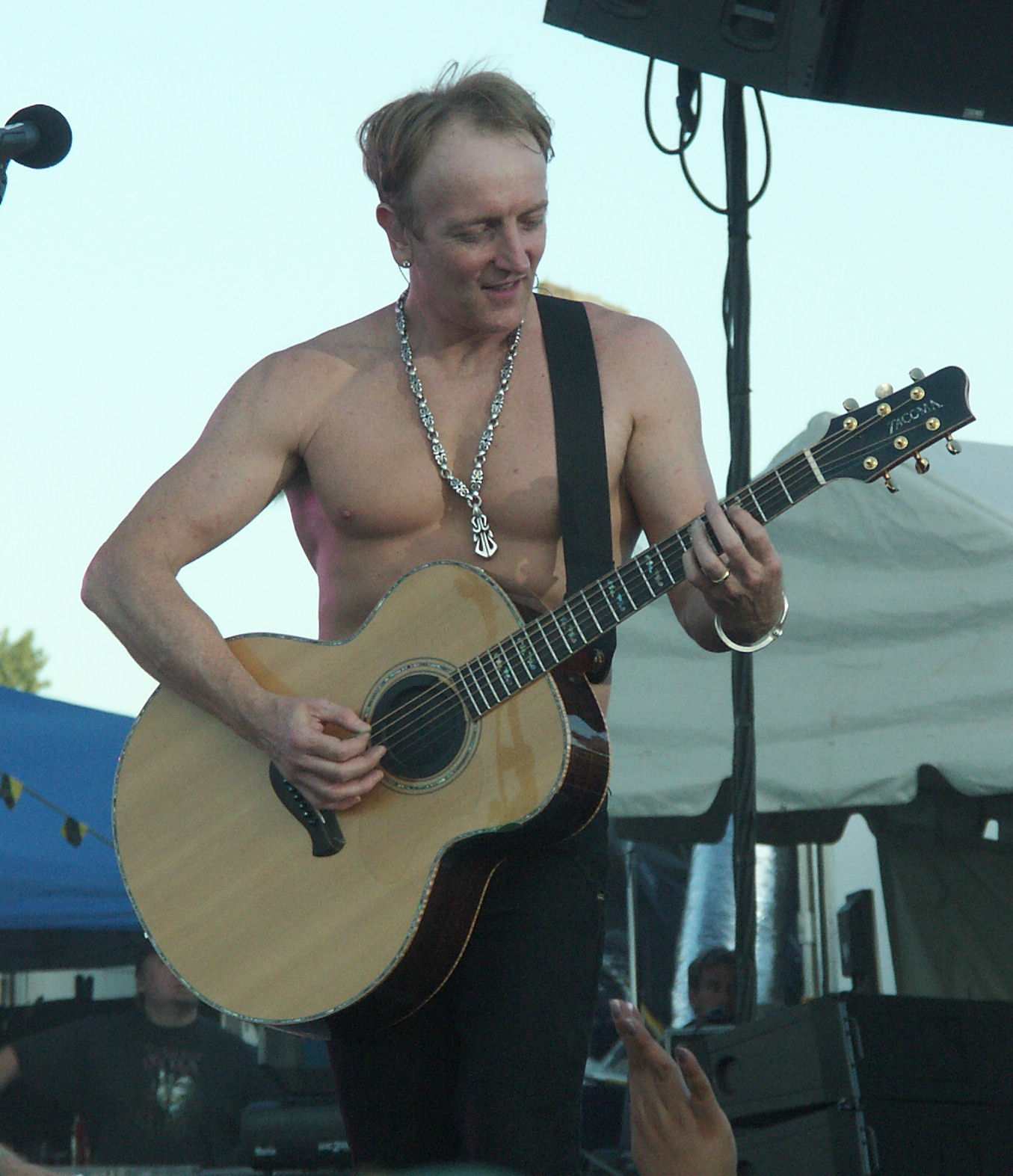 Taken by Weatherman90 at North Dakota State Fair Def Leppard Concert, 2007-07-26